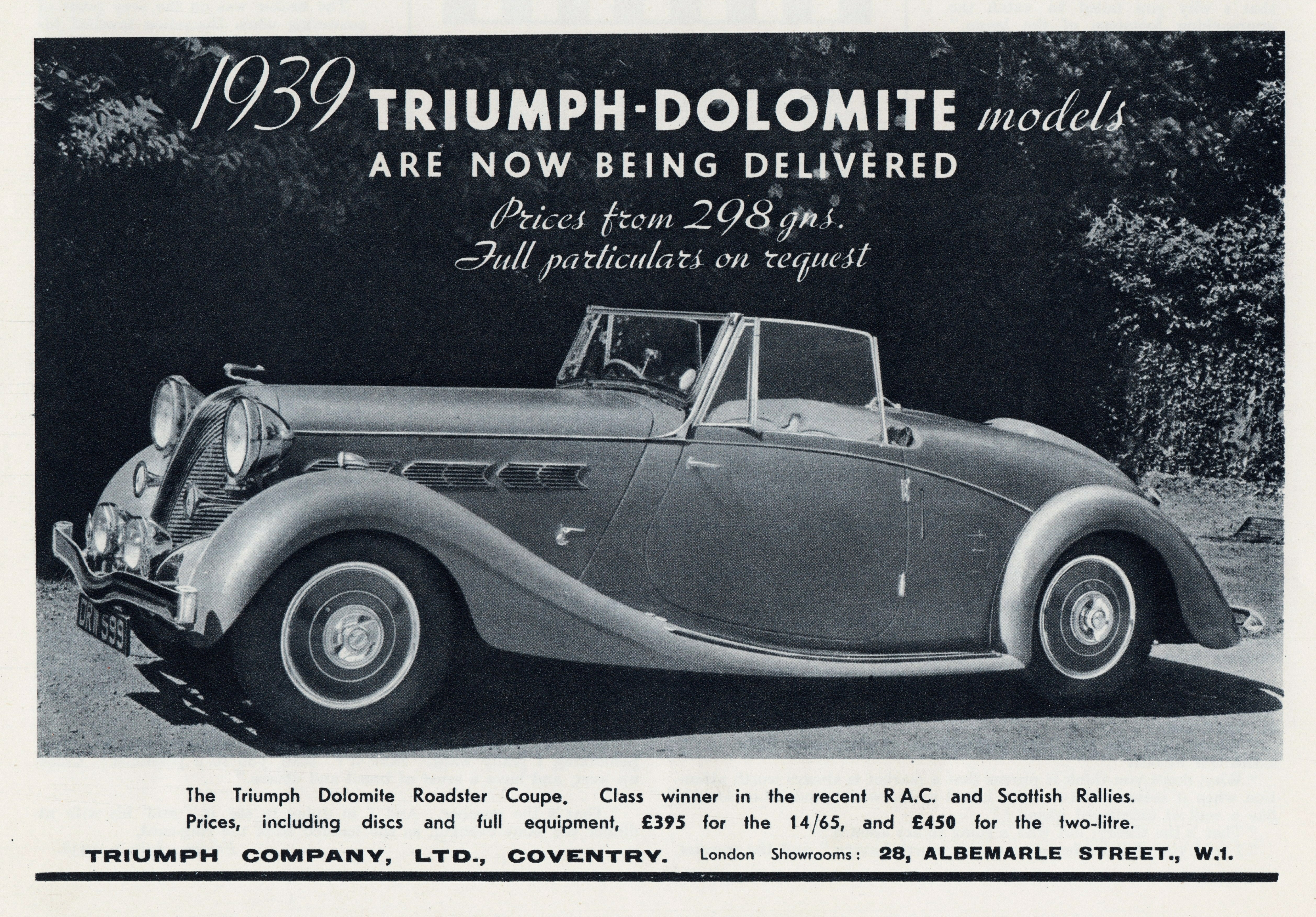 1939 Triumph Dolomite Roadster Coupe